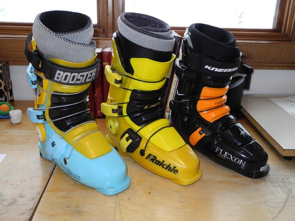 This image shows three right-hand ski boots spanning the evolution of the Flexon design. In the center is an original-series model, on the right is the same basic model with the Kneissl branding from around 1999, and on the left is latest version with the Full Tilt branding. All three have been fit with custom tongueless liners. The center boot is missing its power strap.